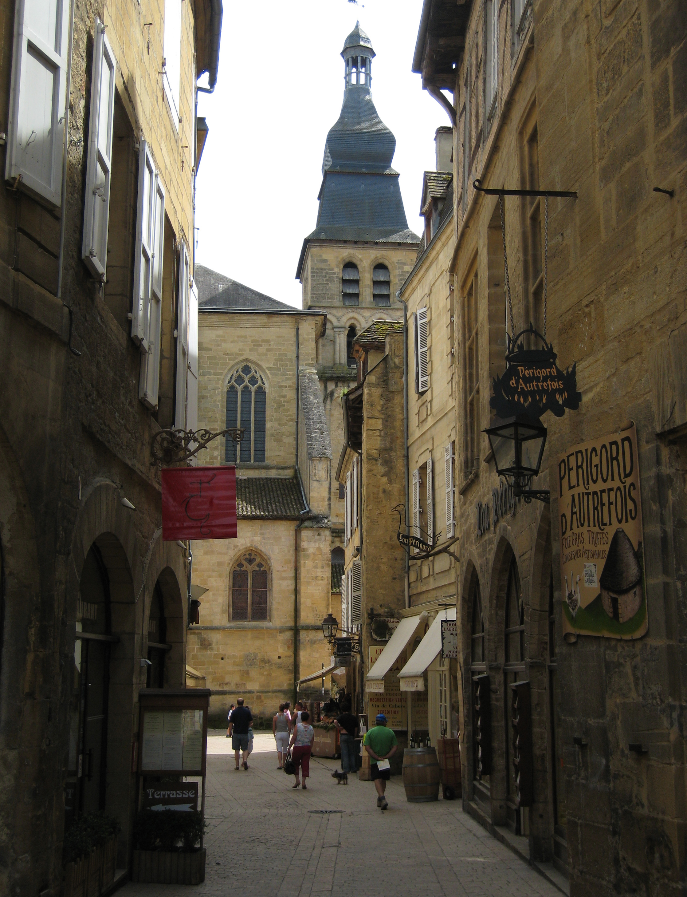 Village of Sarlat in the Département of Dordogne/France - old town, Rue de la Liberté